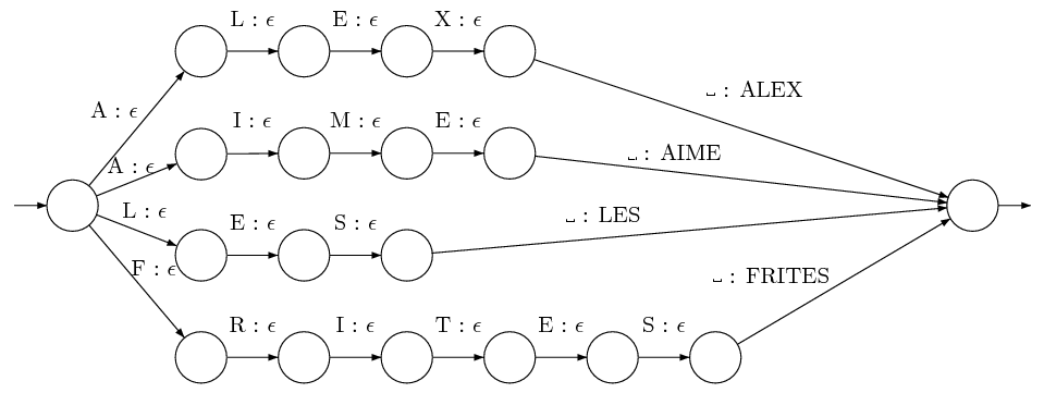 This transucer represents an example of lexic : it reads letters and writes words.